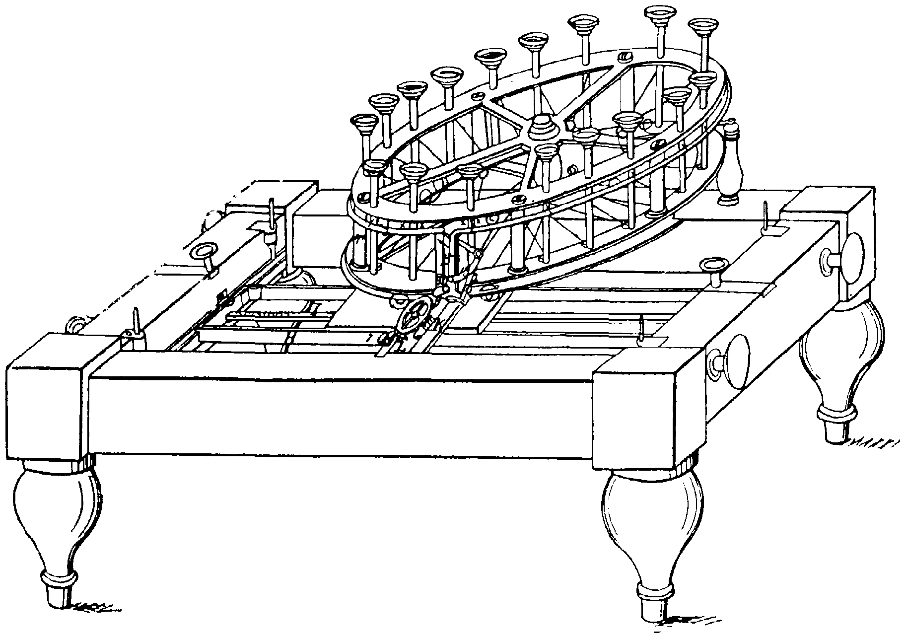 Thurber's Patent Printer, an early prototype typewriter invented and patented by Charles Thurber, Massachusetts, USA, in 1843 for use by the blind. This is the drawing from US Patent No. 3228, dated August 26, 1843. Two of his innovations that are still used in mechanical typewriters today are a cylinder to carry the paper in a moveable carriage that advances with each letter typed, and a mechanism to advance the paper by one line each time the carriage is returned. Thurber never commercially developed this device, and by the 1900s the prototype was in a Worcester museum. For more information, see The typewriter: an informal history, 1977, IBM Archives, and Charles Thurber, US Patent No. 3228, Today in Science History